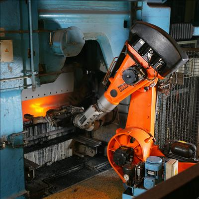 Factory Automation with industrial robots for metal die casting in foundry industry, robotics in metal manufacturing